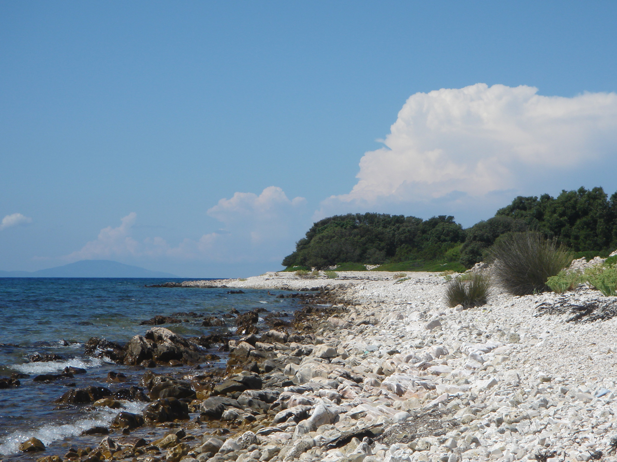 The coastline of the island of Maun.